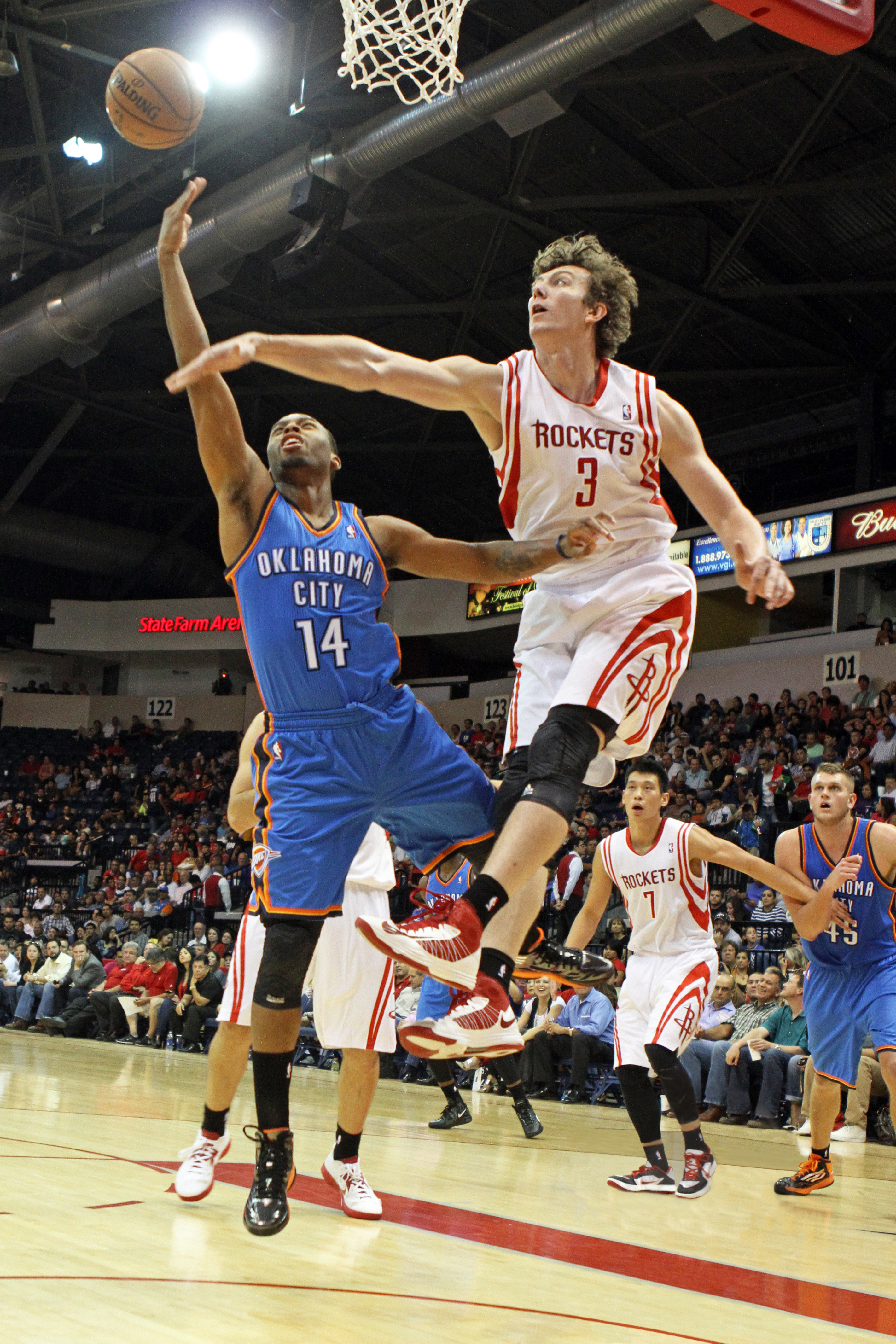 Omer Asik blockshot of Daequan Cook